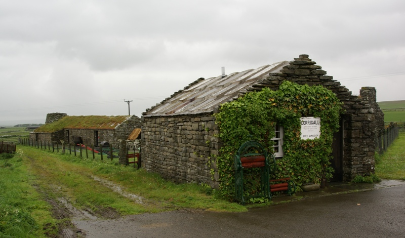 Corrigall Farm Museum, Mainland, Orkney, Scotland.